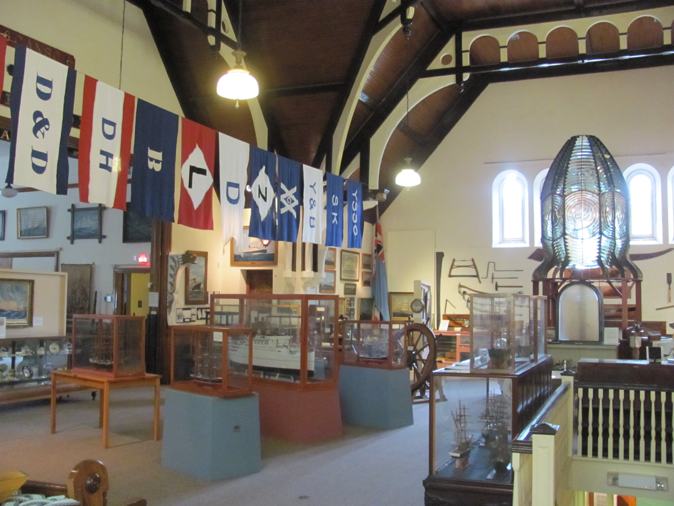 Interior of the Yarmouth County Museum and Archives showing the main gallery with the Cape Forchu Fresnel lens, replicas of Yarmouth shipping house flags and a selection of ship models and ship portraits, 2016.